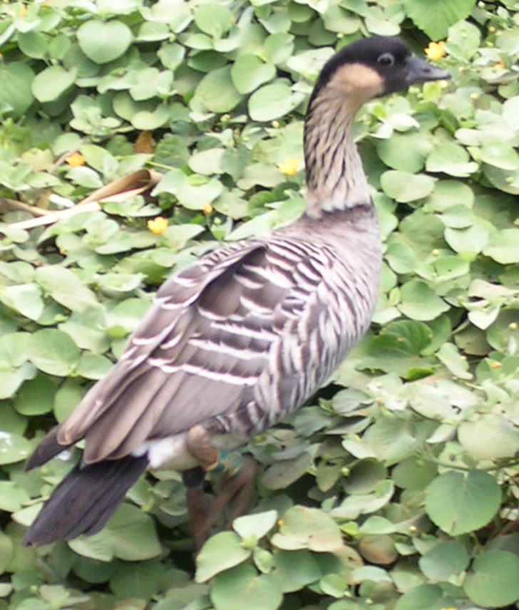 Nēnē (Branta sandvicensis) at the "Kilauea Point National Wildlife Refuge" Kaua'i, HI Photo by Alejandro Bárcenas (2006)